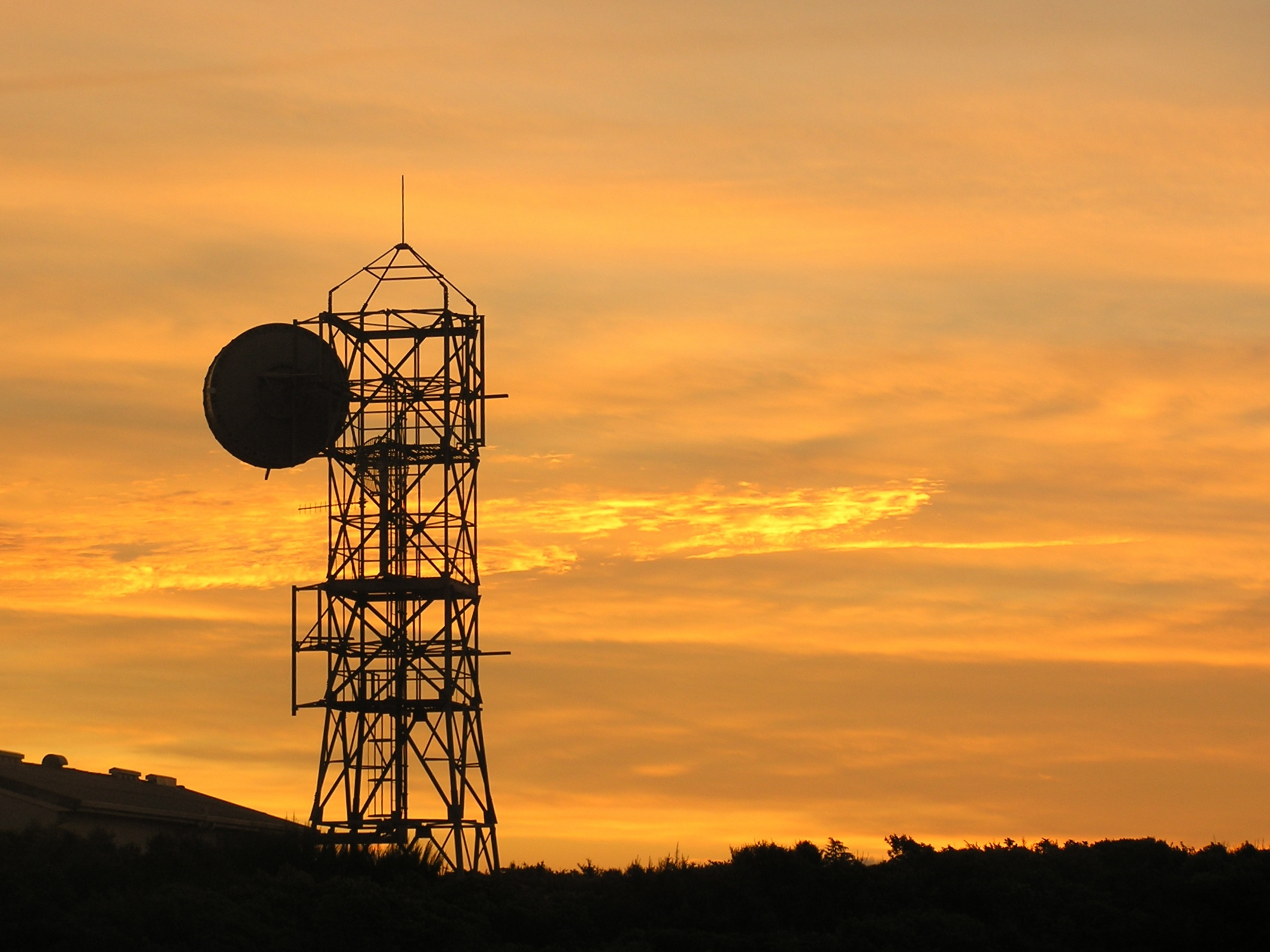 Microwave telecommunications tower, silhouette - Wrights Hill, Wellington New Zealand